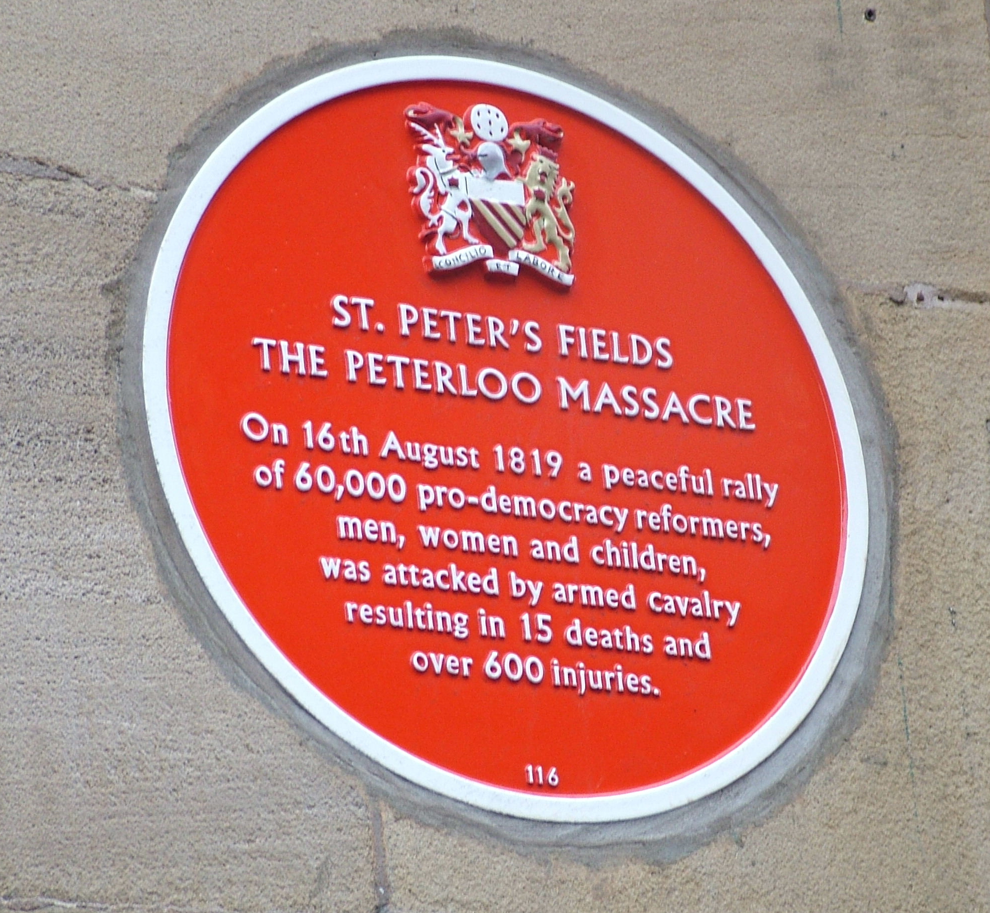 Plaque commemorating the Peterloo Massacre of 16 August 1819. Sited on the wall of what was the Free Trade Hall, now the Radisson Hotel, in Peter Street, Manchester, England.